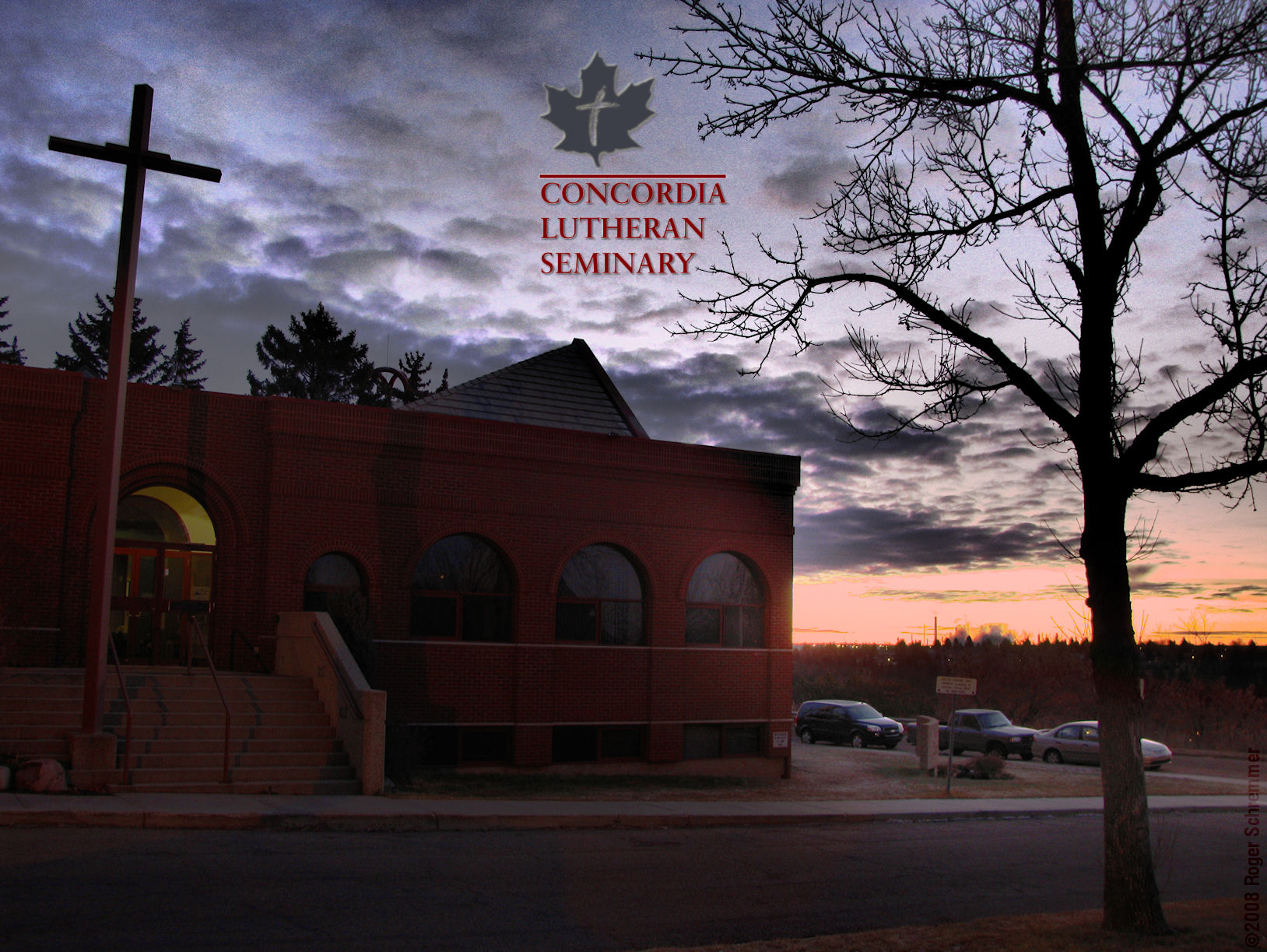 Concordia Lutheran Seminary (2008), looking SE during sunrise, with N. Saskatchwan River valley and Wayne Gretzky Way bridge hidden in background.